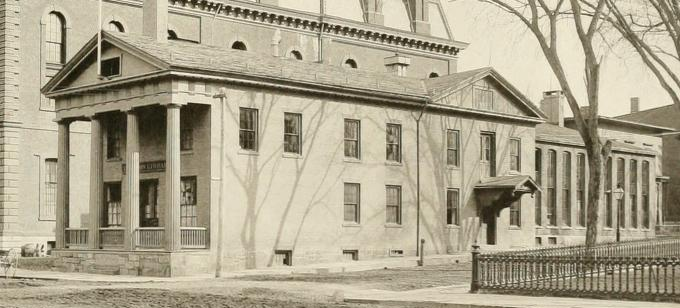 Photograph of Bronson Library in Waterbury, Connecticut